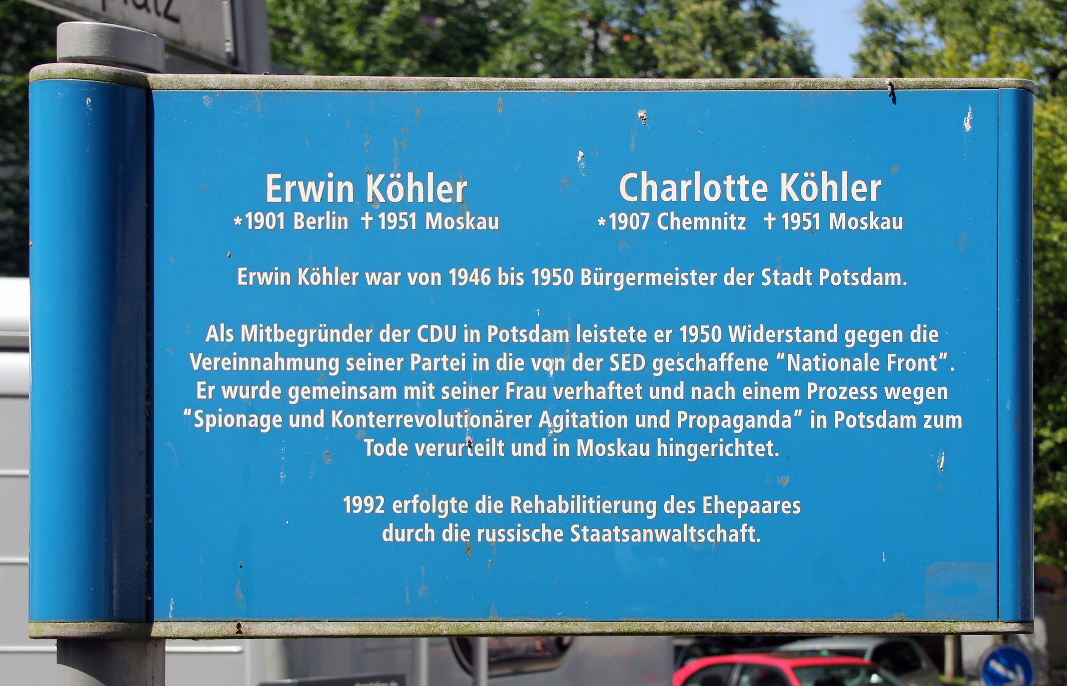 Memorial plaque, Erwin Köhler, Köhlerplatz, Potsdam, Deutschland